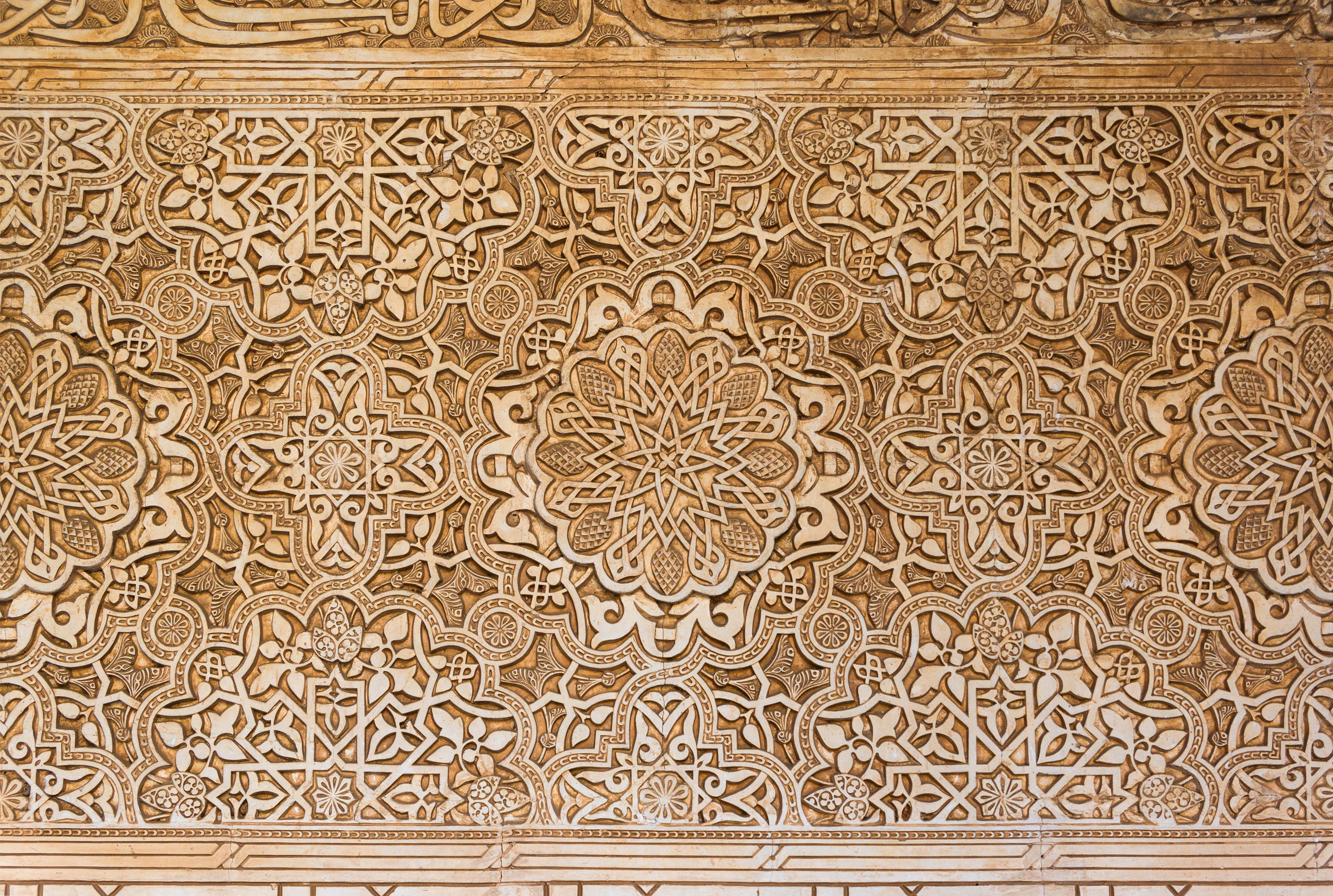 Details of wall arabesques in the Patio de los Leones, Alhambra, Granada, Spain.